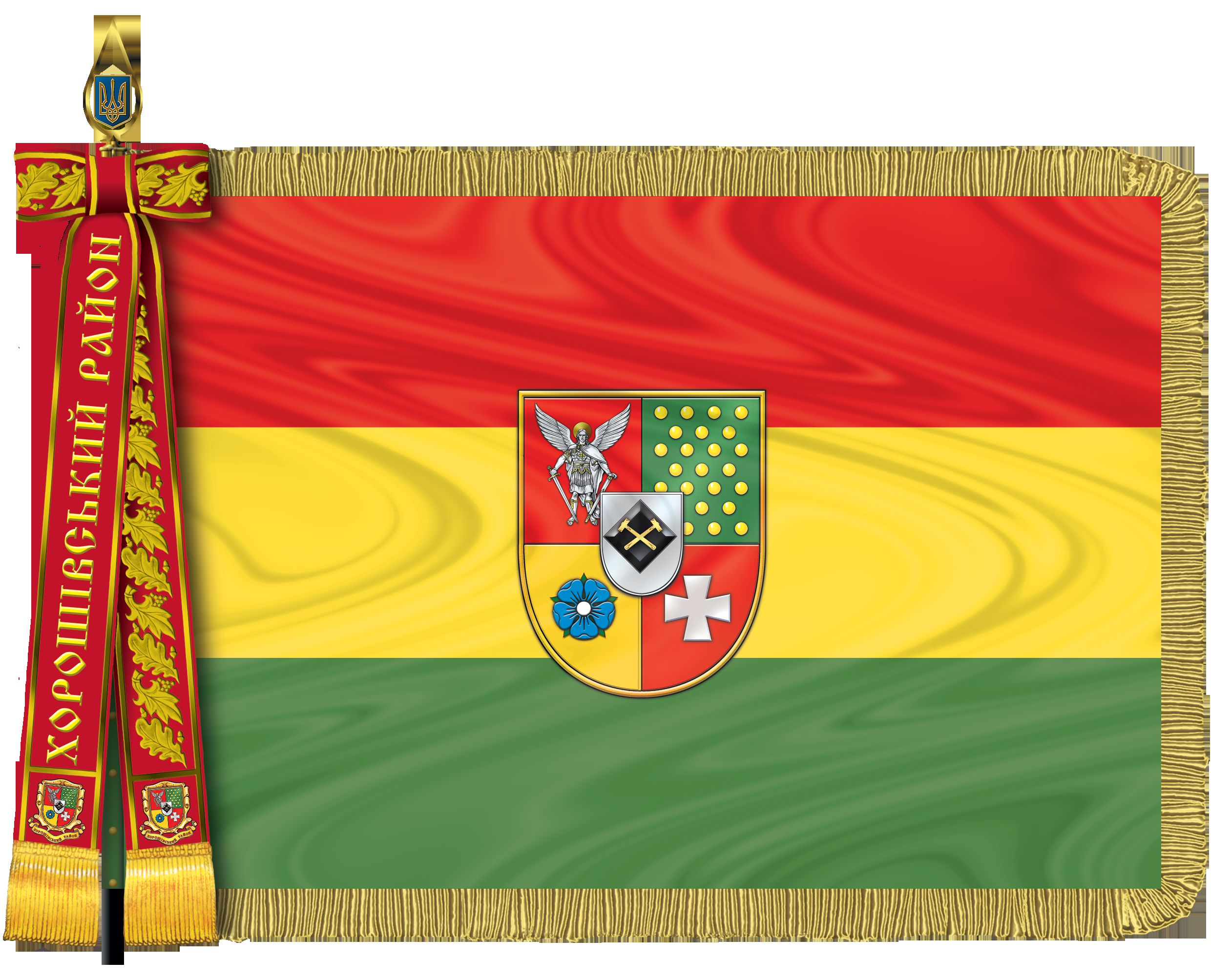 Flag Of Khoroshiv Rayon